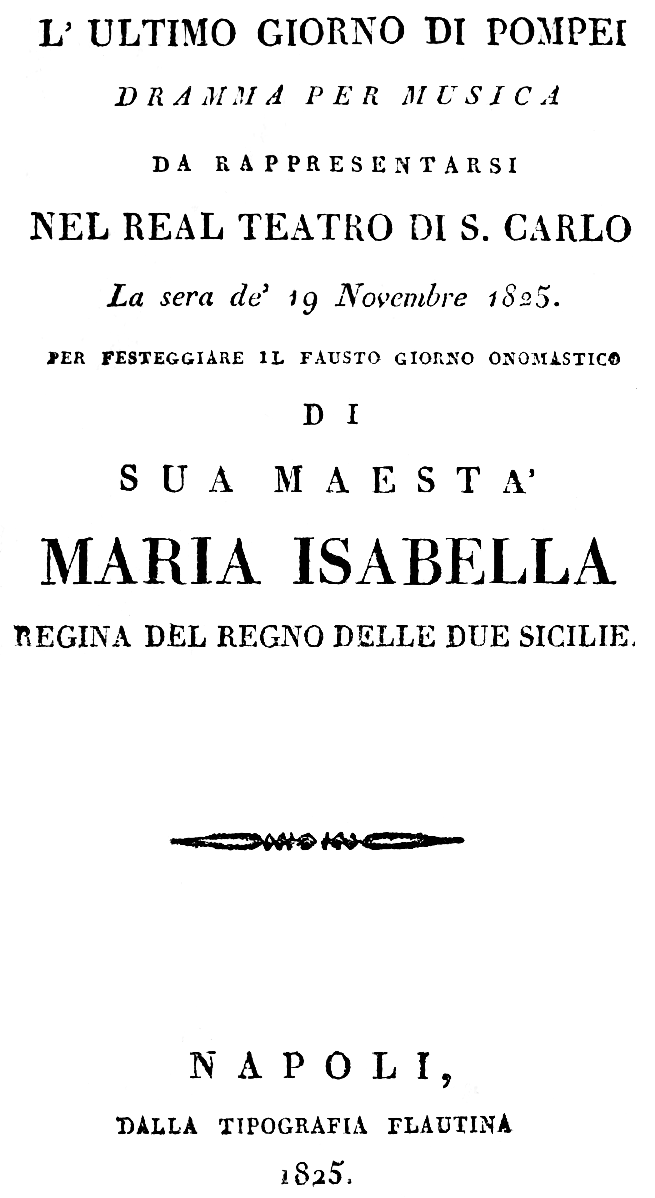 Pacini - L'ultimo giorno di Pompei - Naples 1825